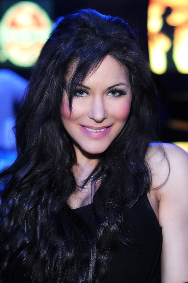 Cristal Camden, Hollywood, California on May 4, 2014 - Photo by Glenn Francis of